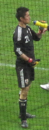 Japanese goalkeeper Eiji Kawashima in Graz, Austria